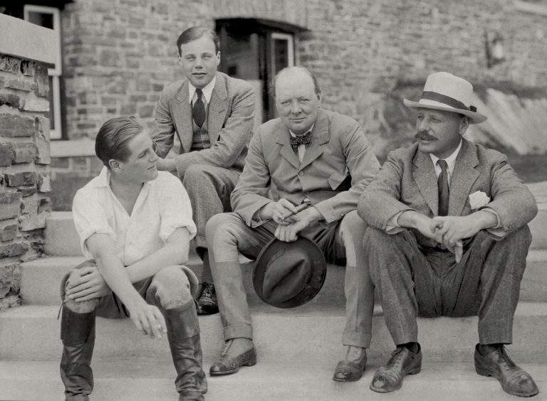 Winston Churchill and his brother Jack with Randolph and Johnny